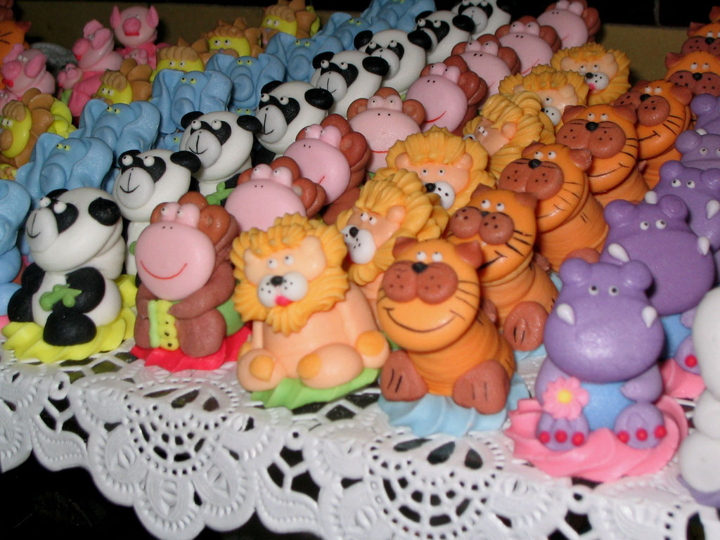 Marzipan cake decorations from Dafna's Cheese Cake Factory on Smithdown Road, Liverpool, UK